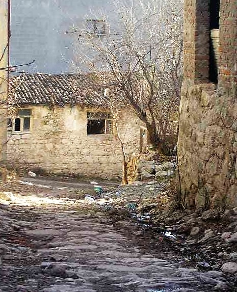 Another house made by face stone in Kayabaşı